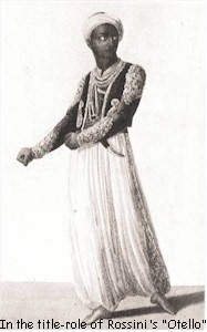 Portrait of spanish opera singer Manuel Garcia (1775-1832)